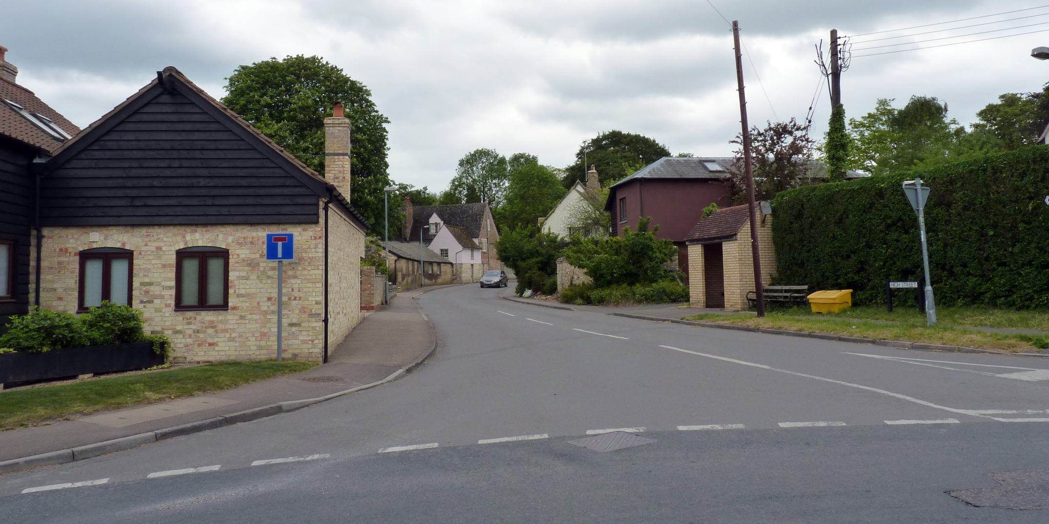 High Street of Coton, Cambridgeshire.